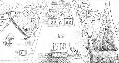 Frontispiece of The Story of Doctor Dolittle, published in 1920